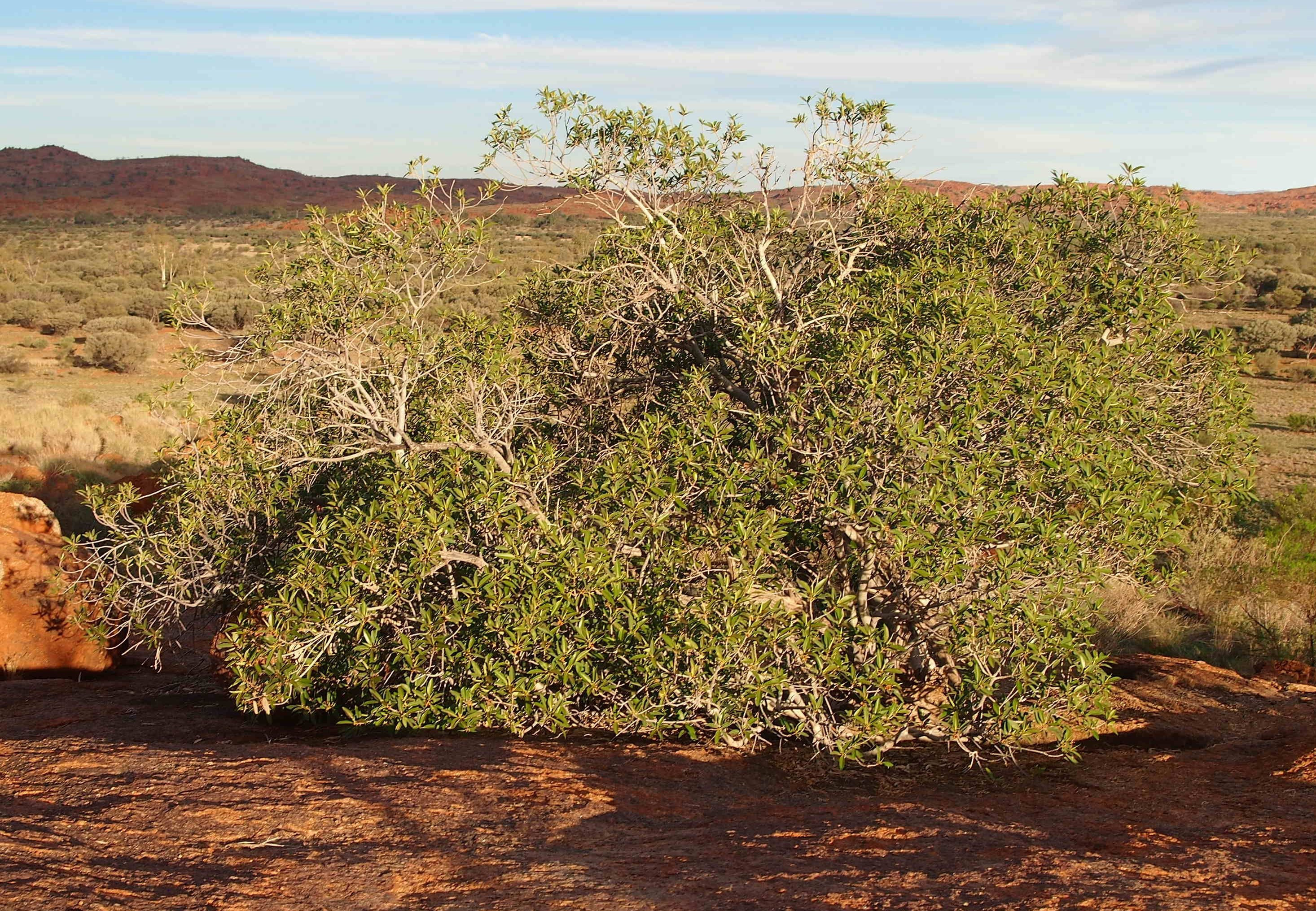 Ficus platypoda, Central Australia